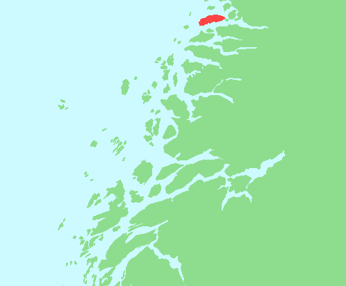 Locator map of Grønnøya, Nordland, Norway